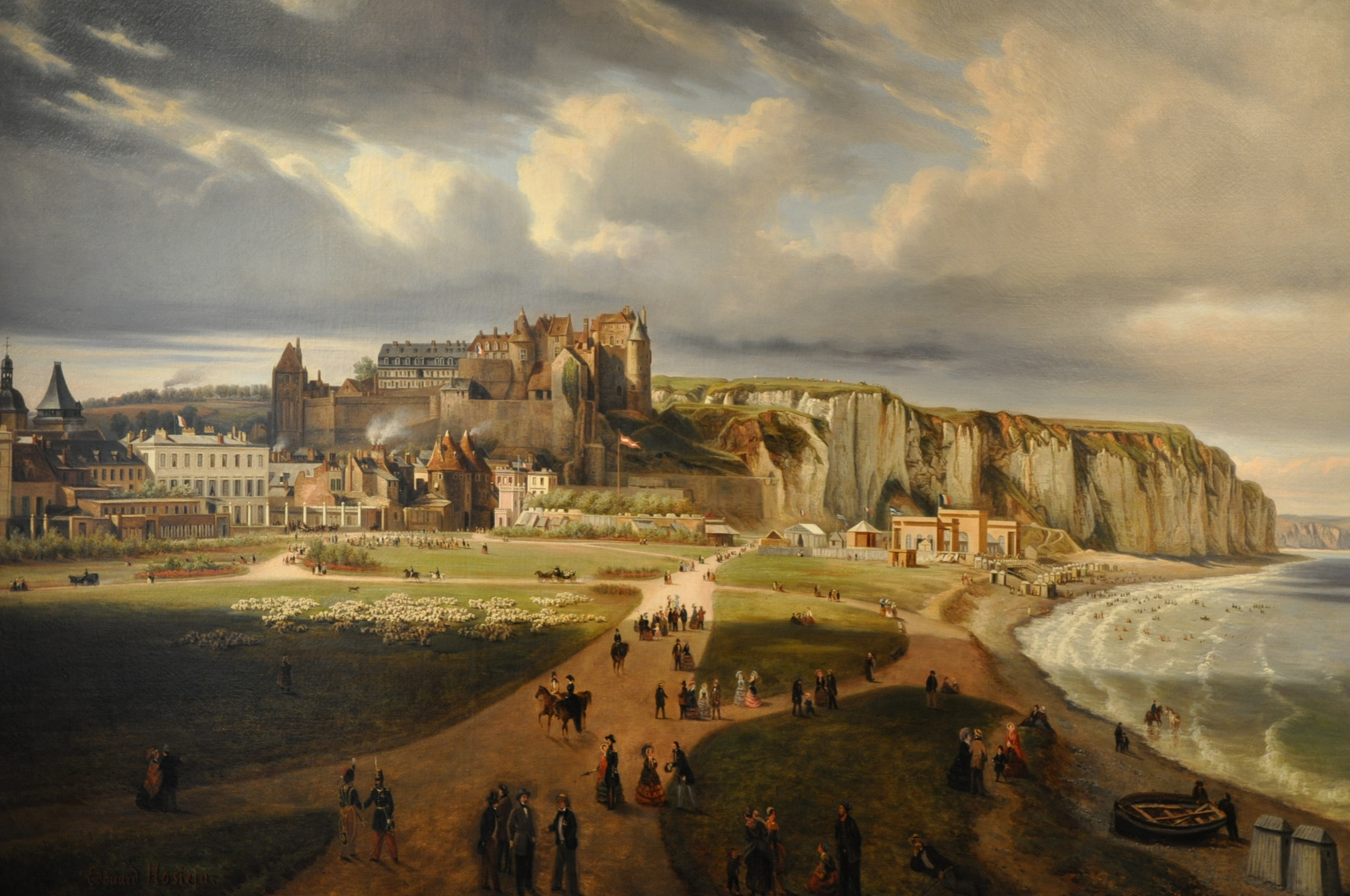 XIX painting of Dieppe (France, Normandy)